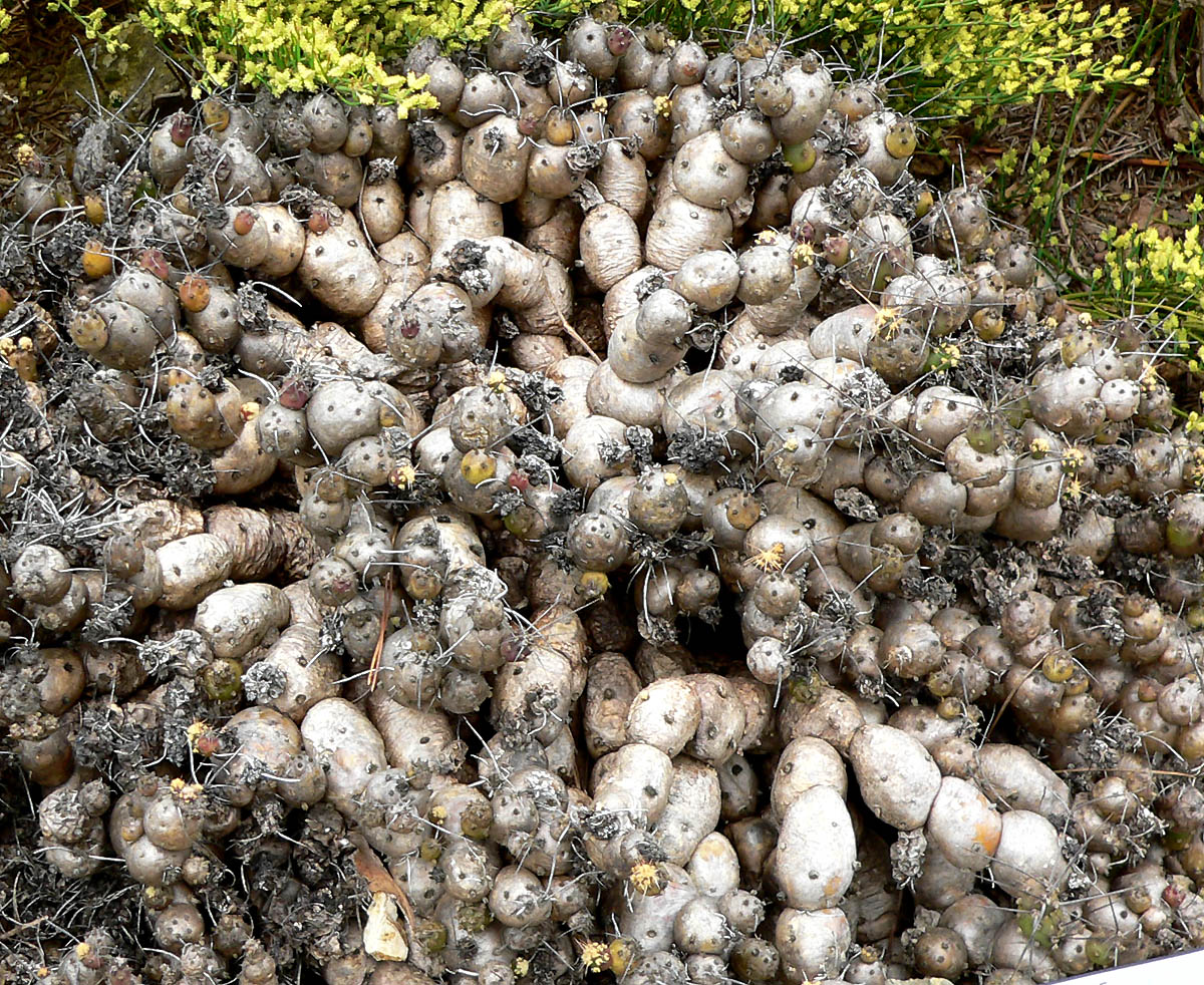 Photo of Maihueniopsis boliviana at the University of California Botanical Garden